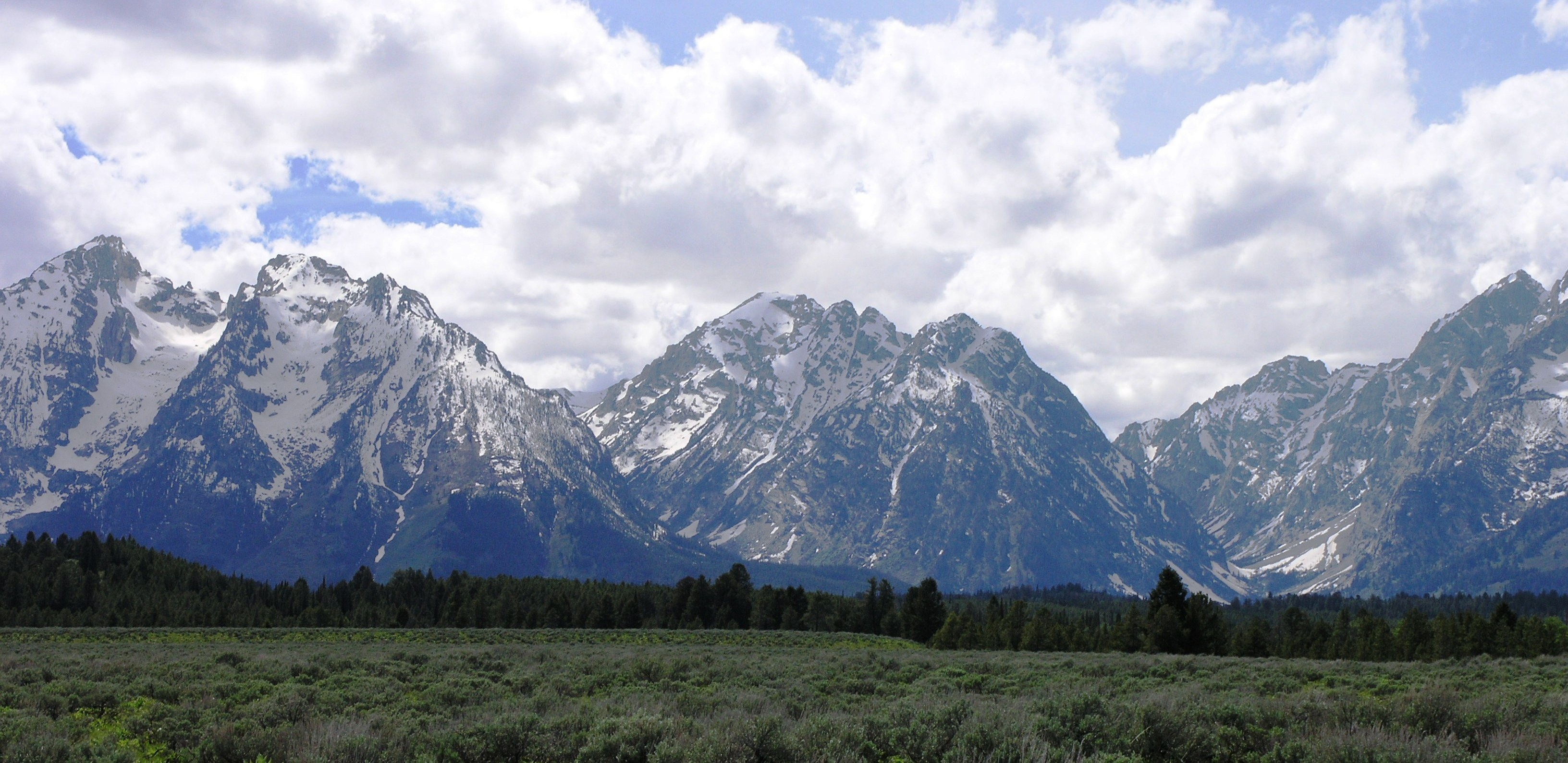 Photo in or around Grand Teton National Park